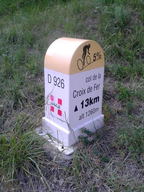 2015 Mountain pass cycling milestone - Croix de Fer from Saint-Jean-de-Maurienne